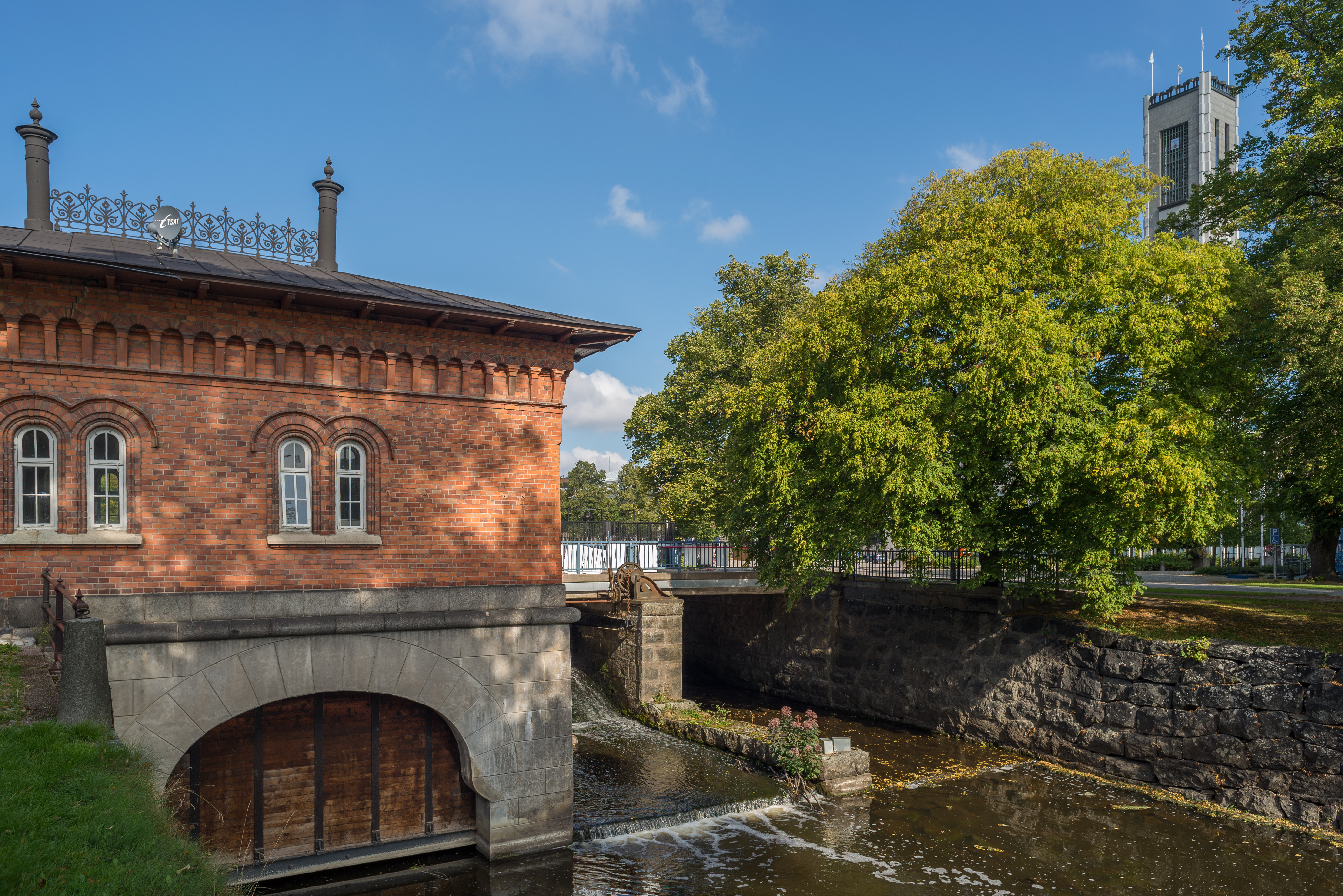 Turbinhuset (the turbine house). Västerås, Sweden. In the background, the tower of Västerås city hall.